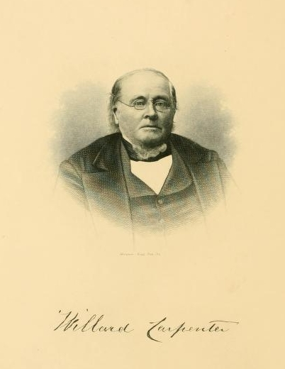 Philanthropist Willard "Old Willard" Carpenter, from History of Vanderburgh County, Indiana, from earliest times to the present; with biographical sketches, reminiscences, etc, by Brant and Fuller, Madison, Wis., 1889.